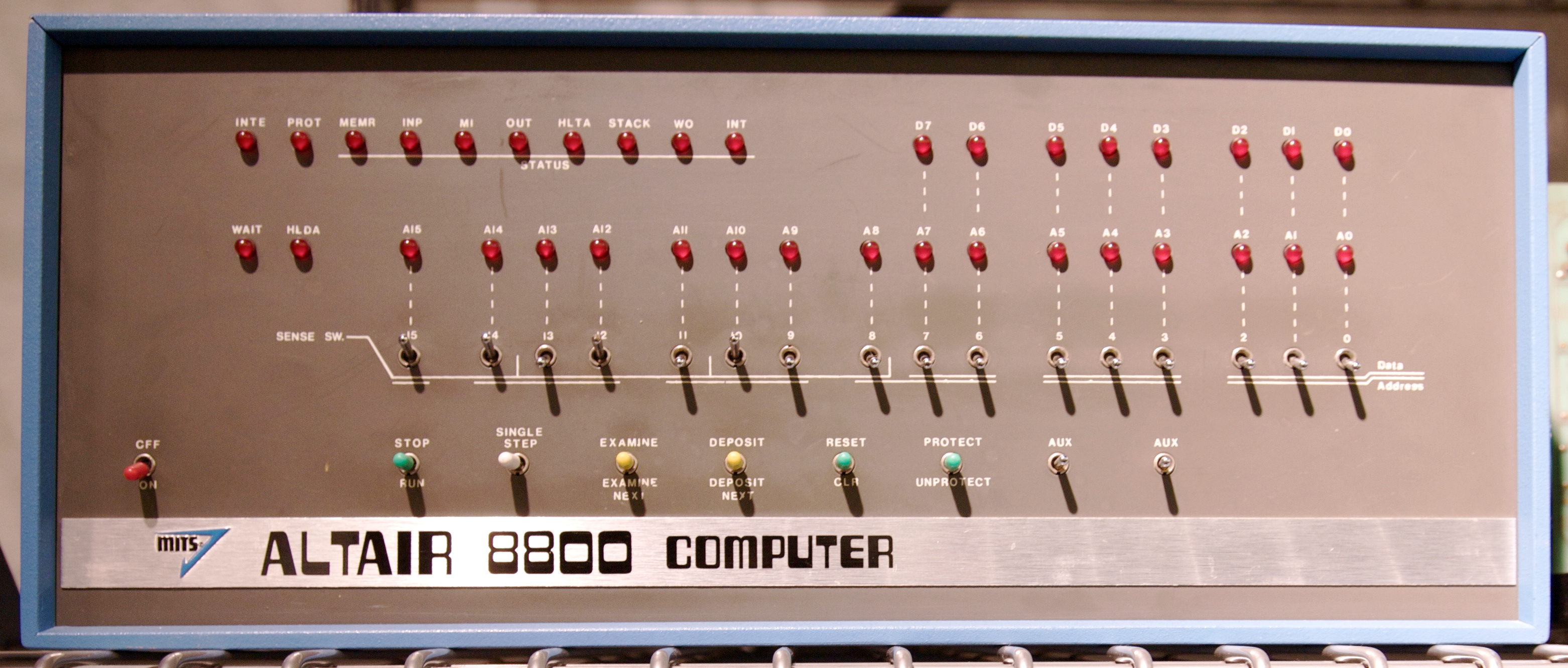 Altair 8800 at the Computer History Museum